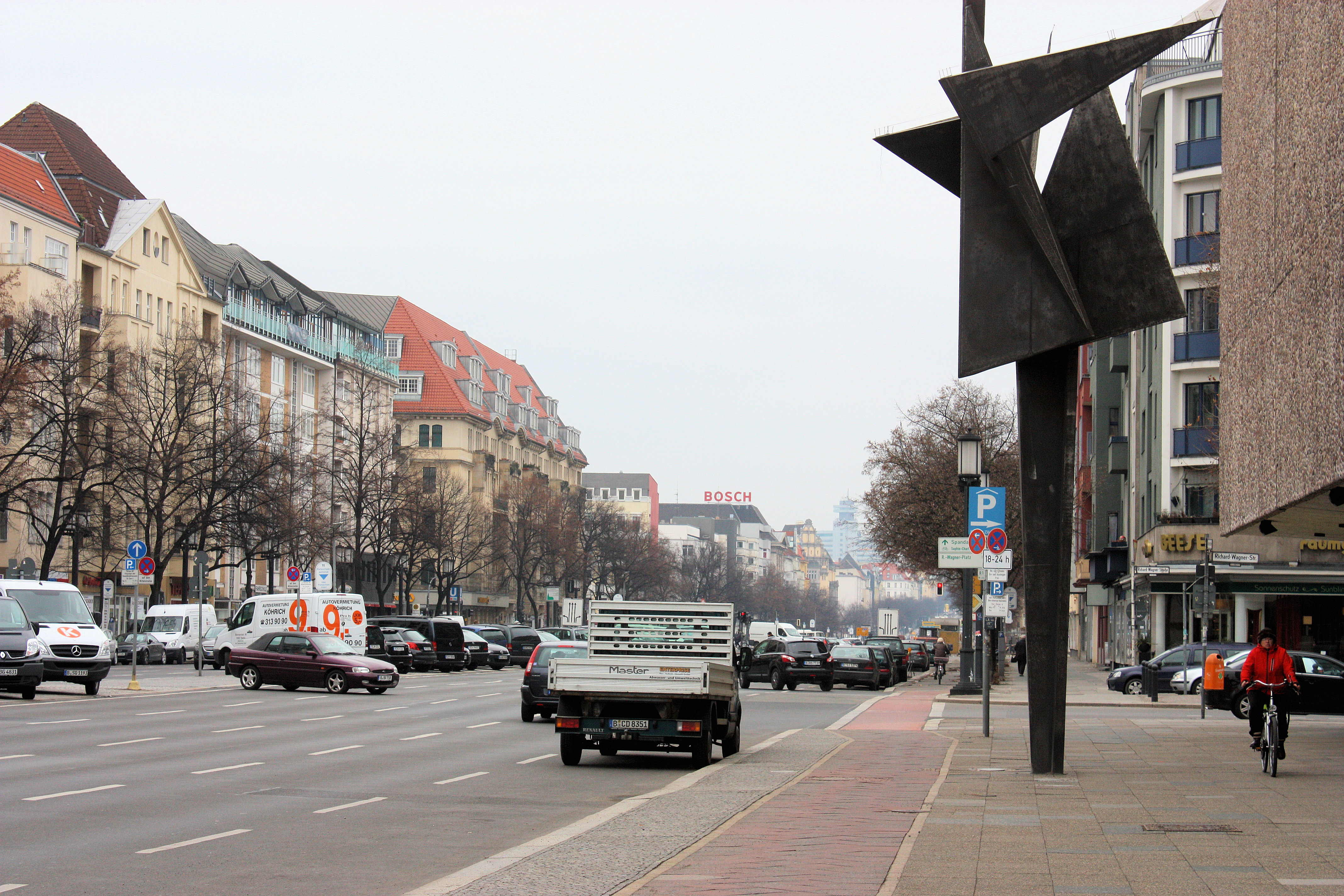 Berlin-Charlottenburg, the street "Bismarckstraße", shot from German opera house